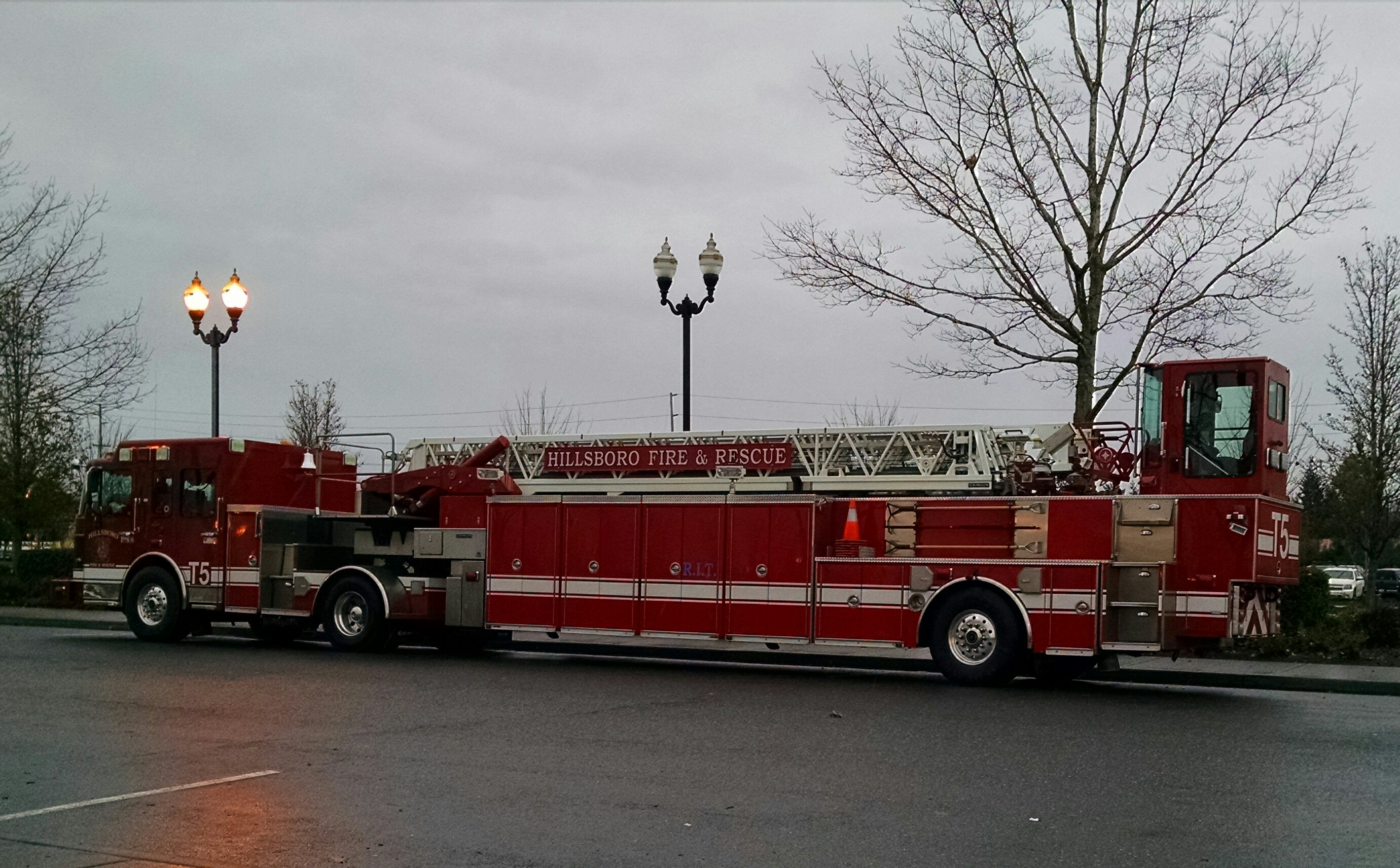 Hook and ladder truck of the Hillsboro, Oregon fire department